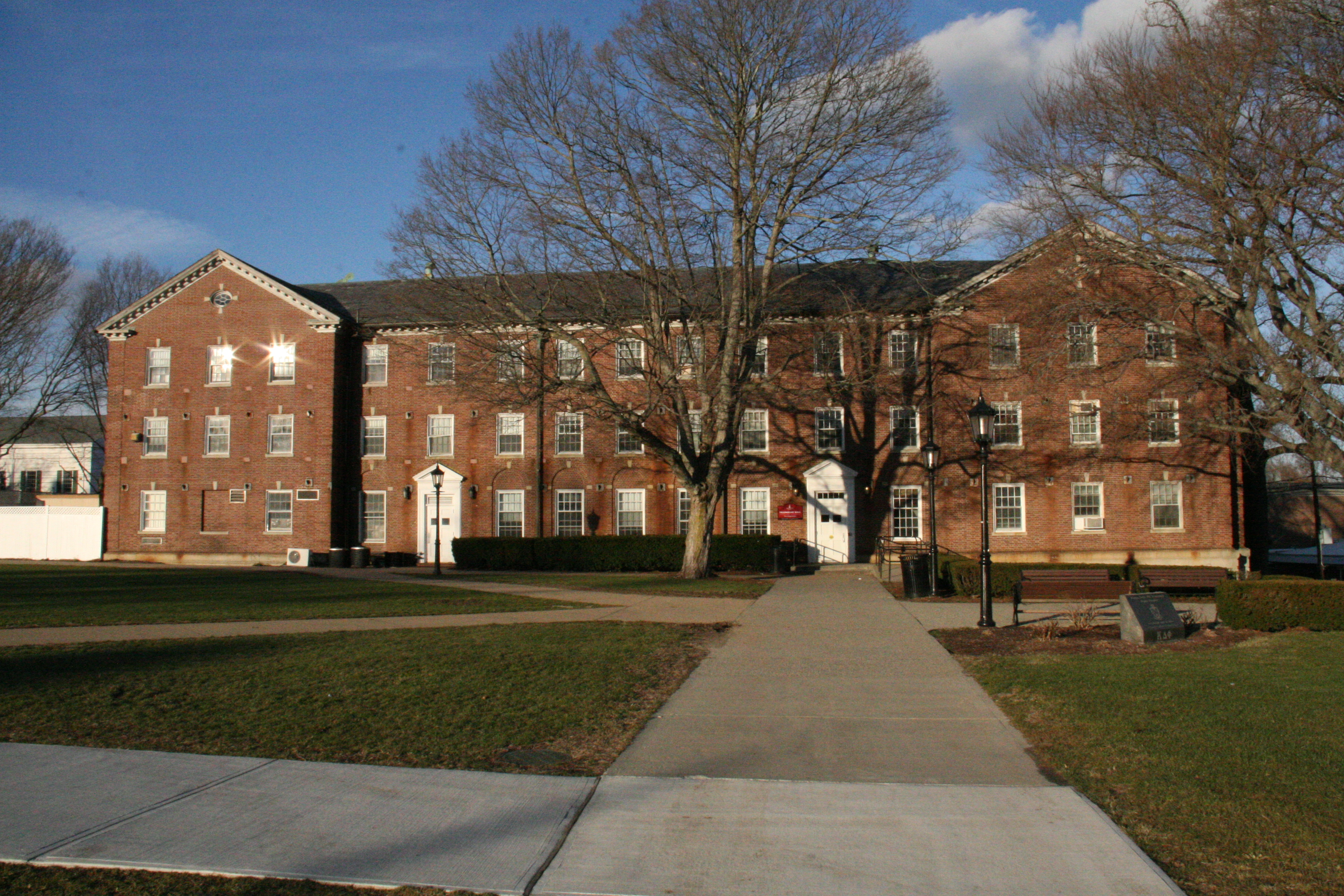 Bridgewater University 45 School St. Bridgewater Ma.